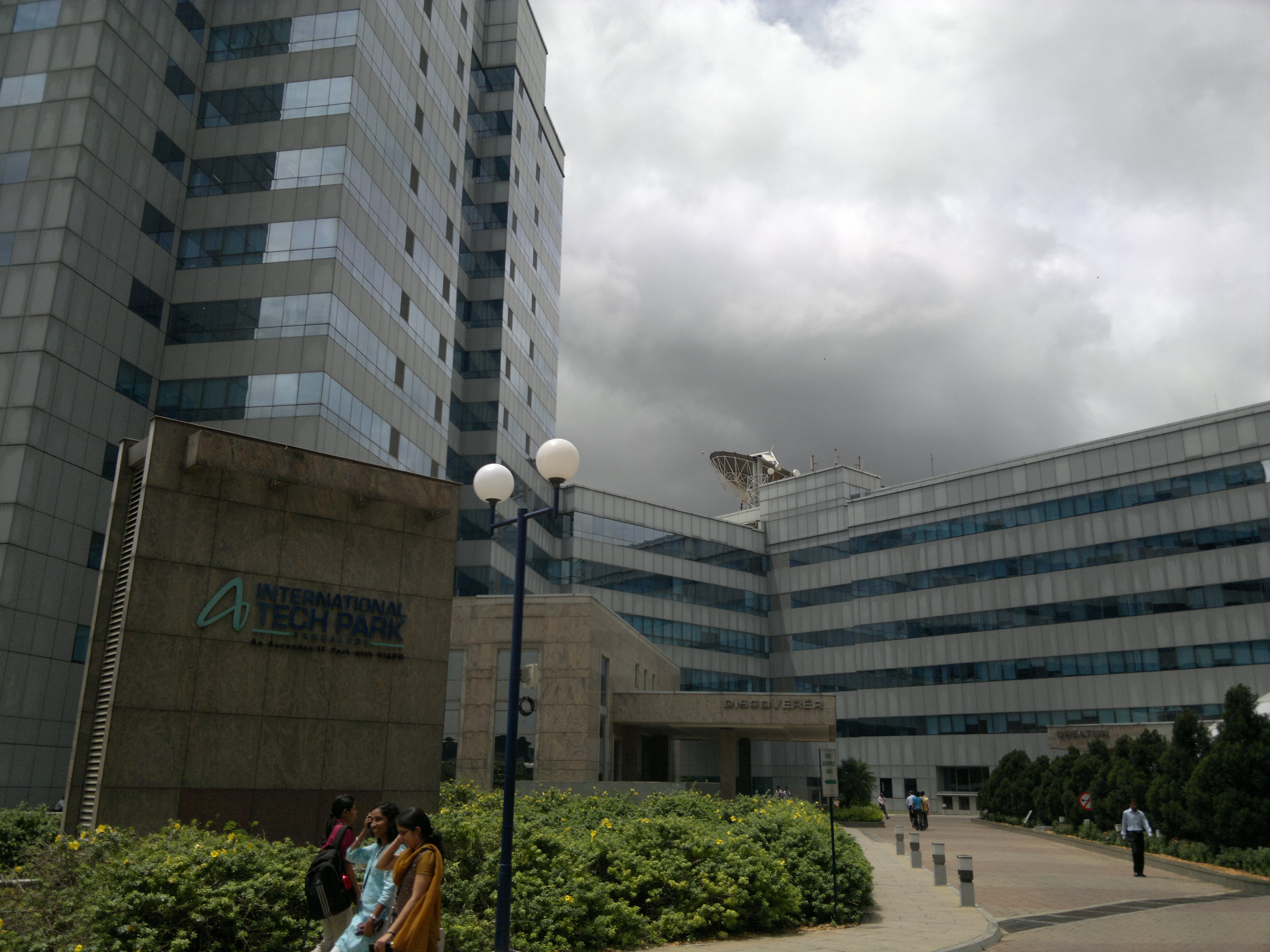 International Tech Park Bangalore or simply ITPB (earlier known as ITPL), developed and managed by Ascendas, is India’s first hi-tech park of its kind designed to provide a complete "work and play" environment for IT and technology-related businesses opened in 1998